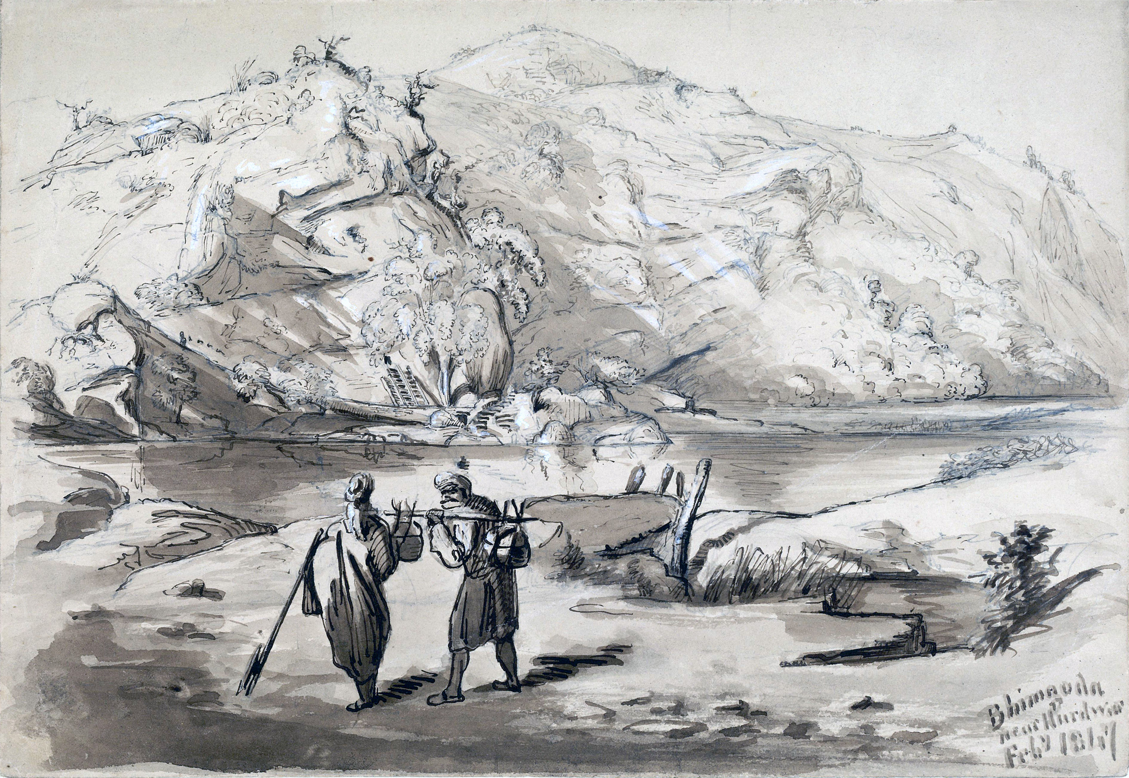 Scene at Bhimgoda near Haridwar, February 1847. Pen-and-ink and wash drawing of a scene at Bhimgoda near Haridwar in Uttar Pradesh, dated February 1847. The image is inscribed on the front in watercolour; 'Bhimnoda near Hurdwar. Feby, 1847'. Bhimgoda Tank is one of the many sacred lakes in the region. Sir Henry served with the Bengal Engineers in India from 1840 to 1862. At the time this drawing was taken he was working in the North West Provinces, with a group of brilliant young engineers, restoring and developing the old Mughal irrigation system. Work on this project was interrupted by the First and Second Sikh Wars (1845-6 and 1848-9) in which Sir Henry participated. He is perhaps best known for his work on the 'Hobson-Jobson' (London, 1886), a glossary of Anglo-Indian colloquial words and phrases.